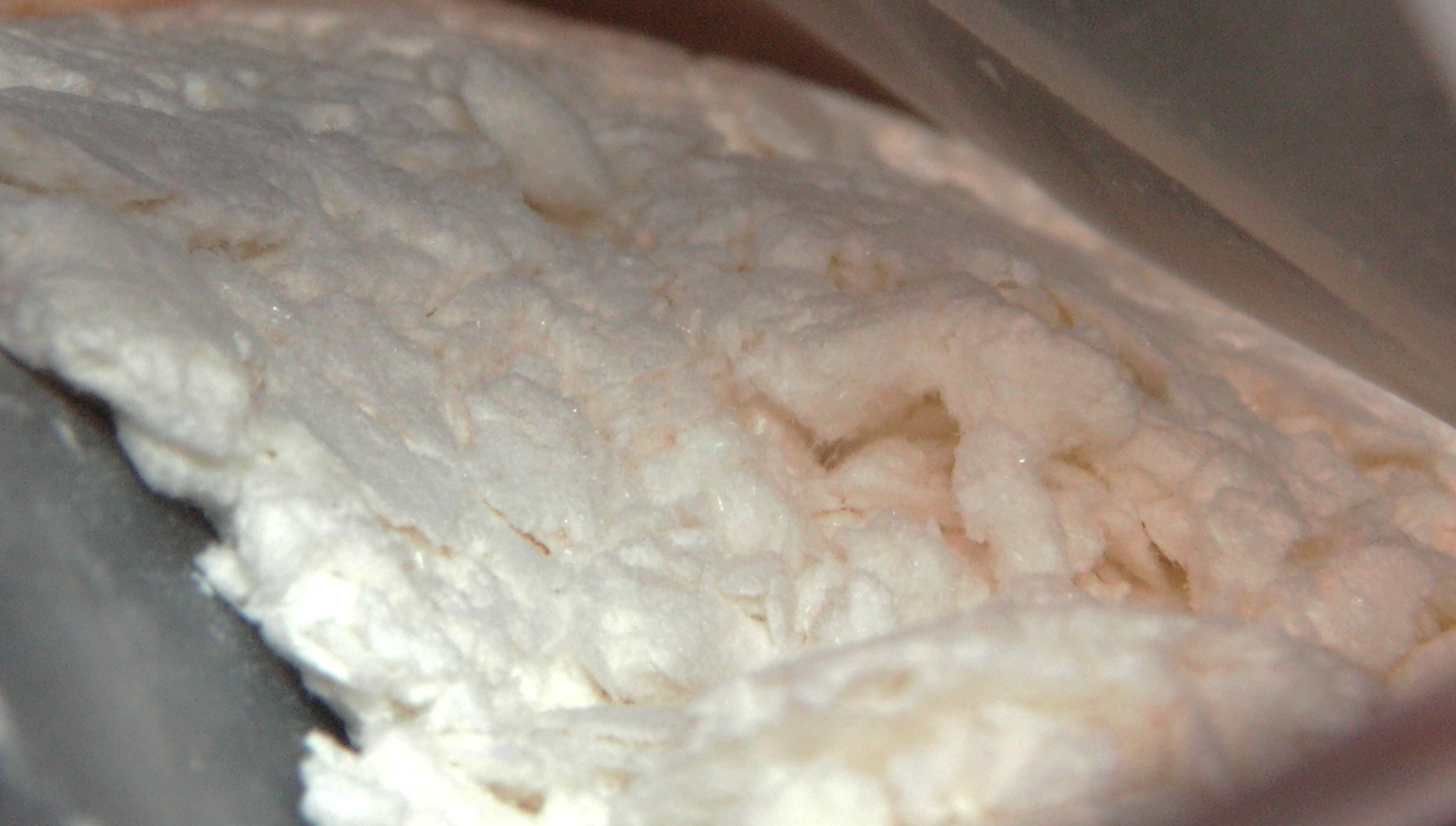 2C-T-2